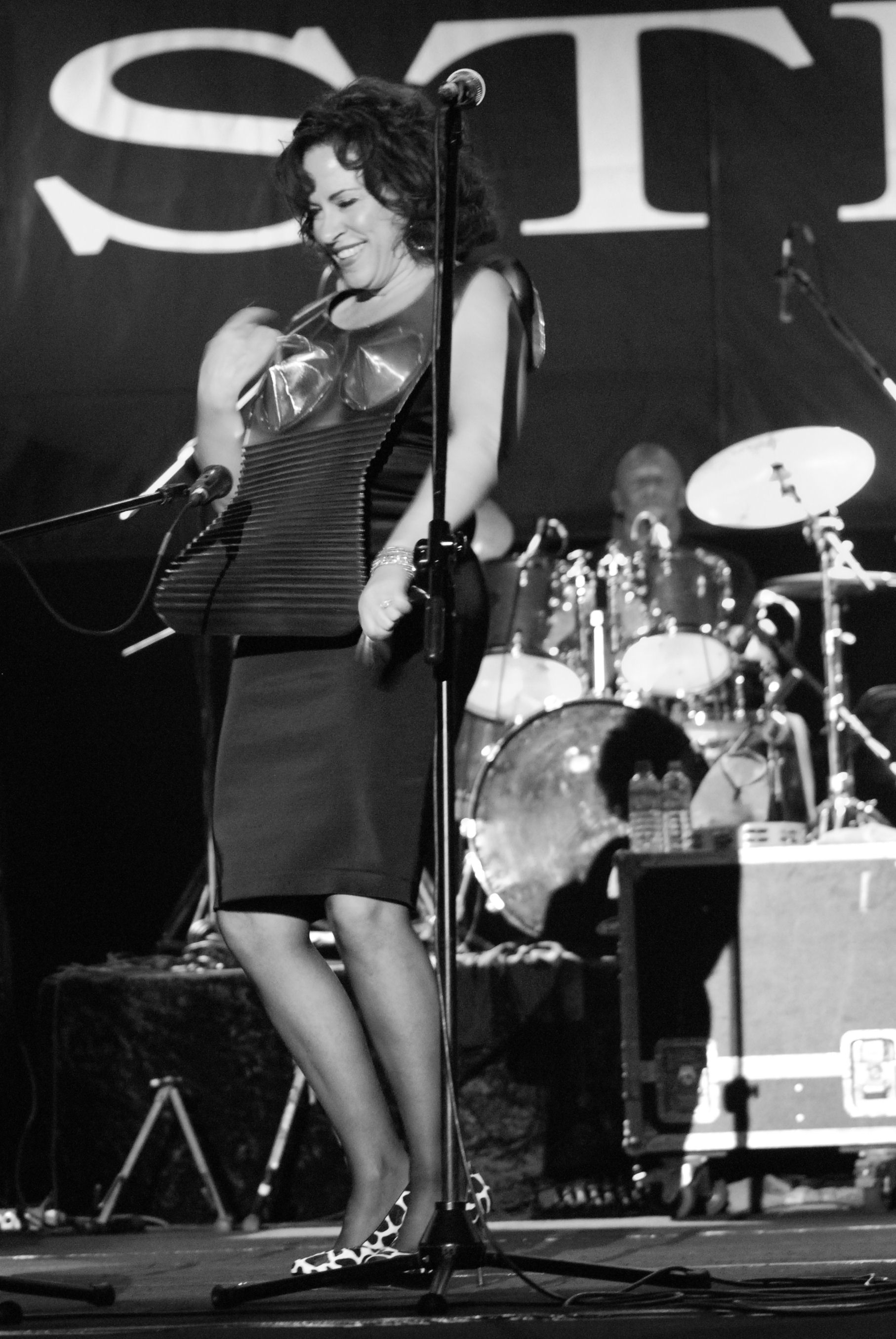 Janiva Magness during 27. edycji Rawy Blues Festival